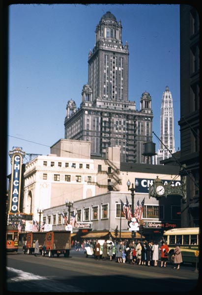 Description: North State St., Chgo. Pure Oil Bldg. in bckgrd Creator: Cushman, Charles Weever, 1896-1972 View source image or order reproductions. More information on the commercial rights for this photo. Part of Charles W. Cushman Collection Indiana University, Bloomington. University Archives. Brought to you by IMLS Digital Collections and Content. Unrestricted access; use with attribution. Chicago